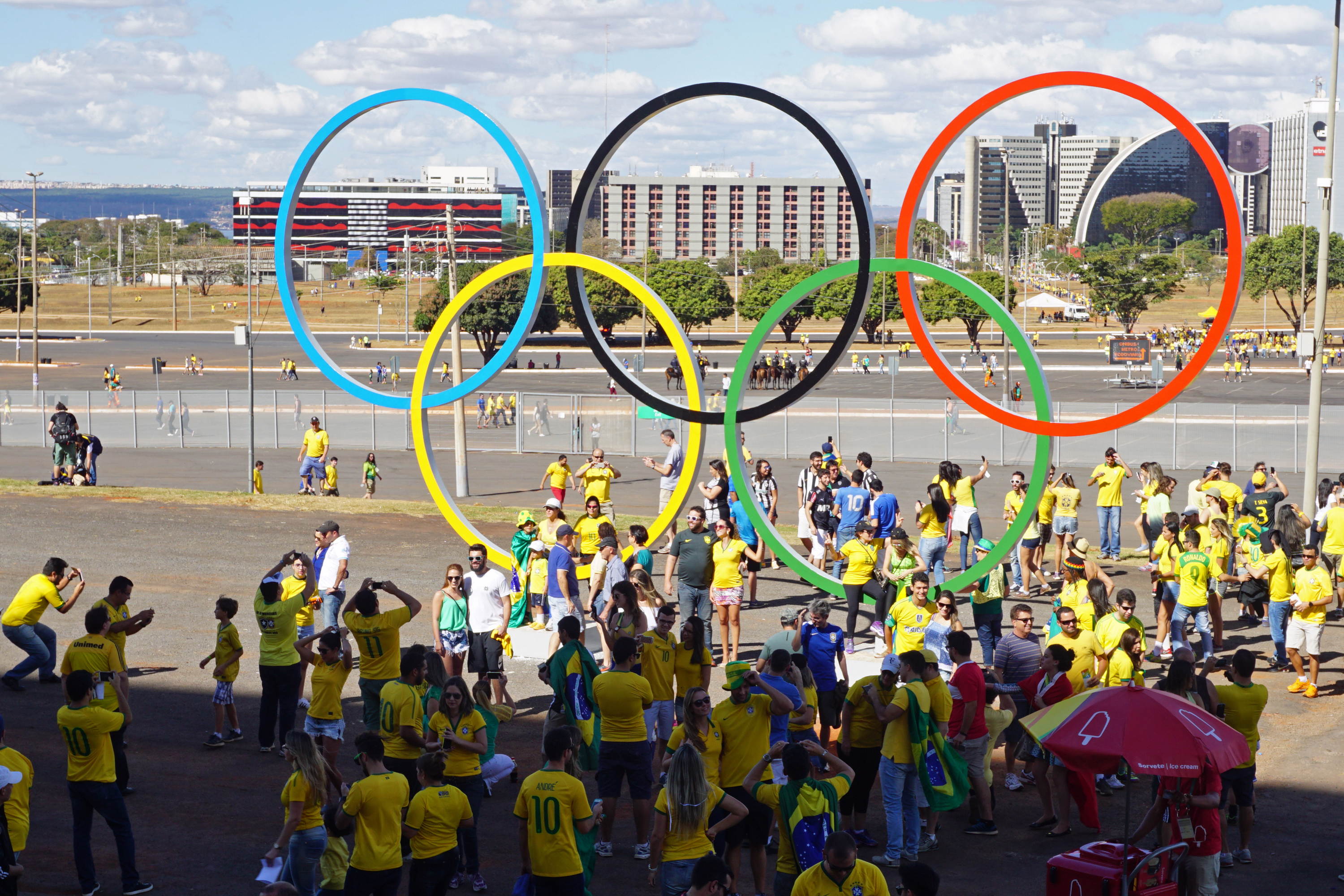 Olympic rings at Mane Garrincha stadium, Brasilia. 2016 Summer Olympics (Rio 2016)